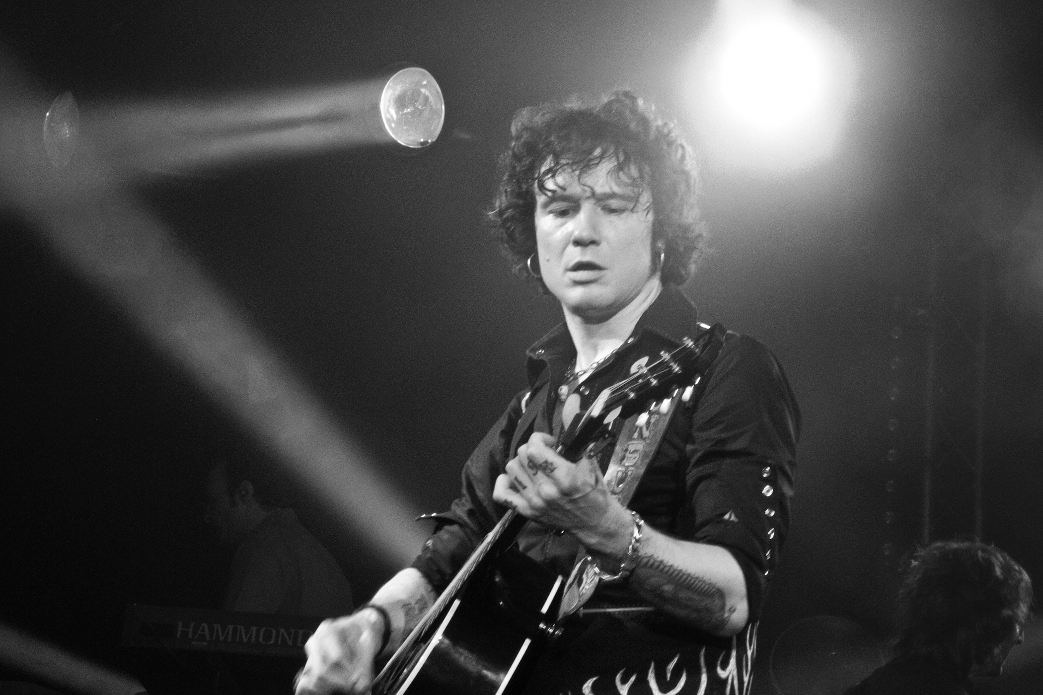 Enrique Bunbury during a concert in 2012.